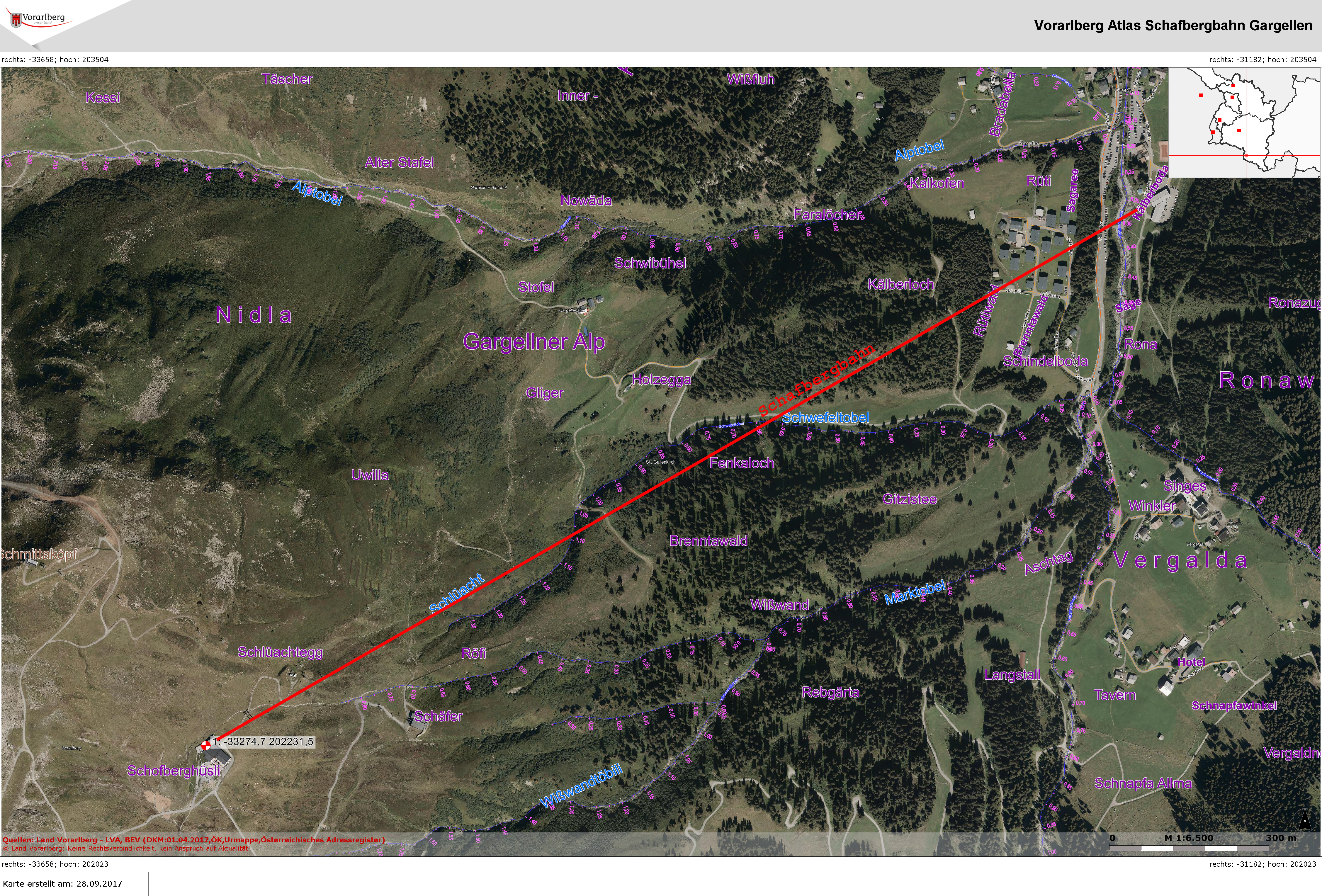 Aerial photo of the Schafbergbahn and surroundings (Ski Area) in Gargellen (Vorarlberg, Austria). Country Vorarlberg - . Open Government Data Vorarlberg is licensed under a Creative Commons Attribution 3.0 Generic license. Approval for publication.